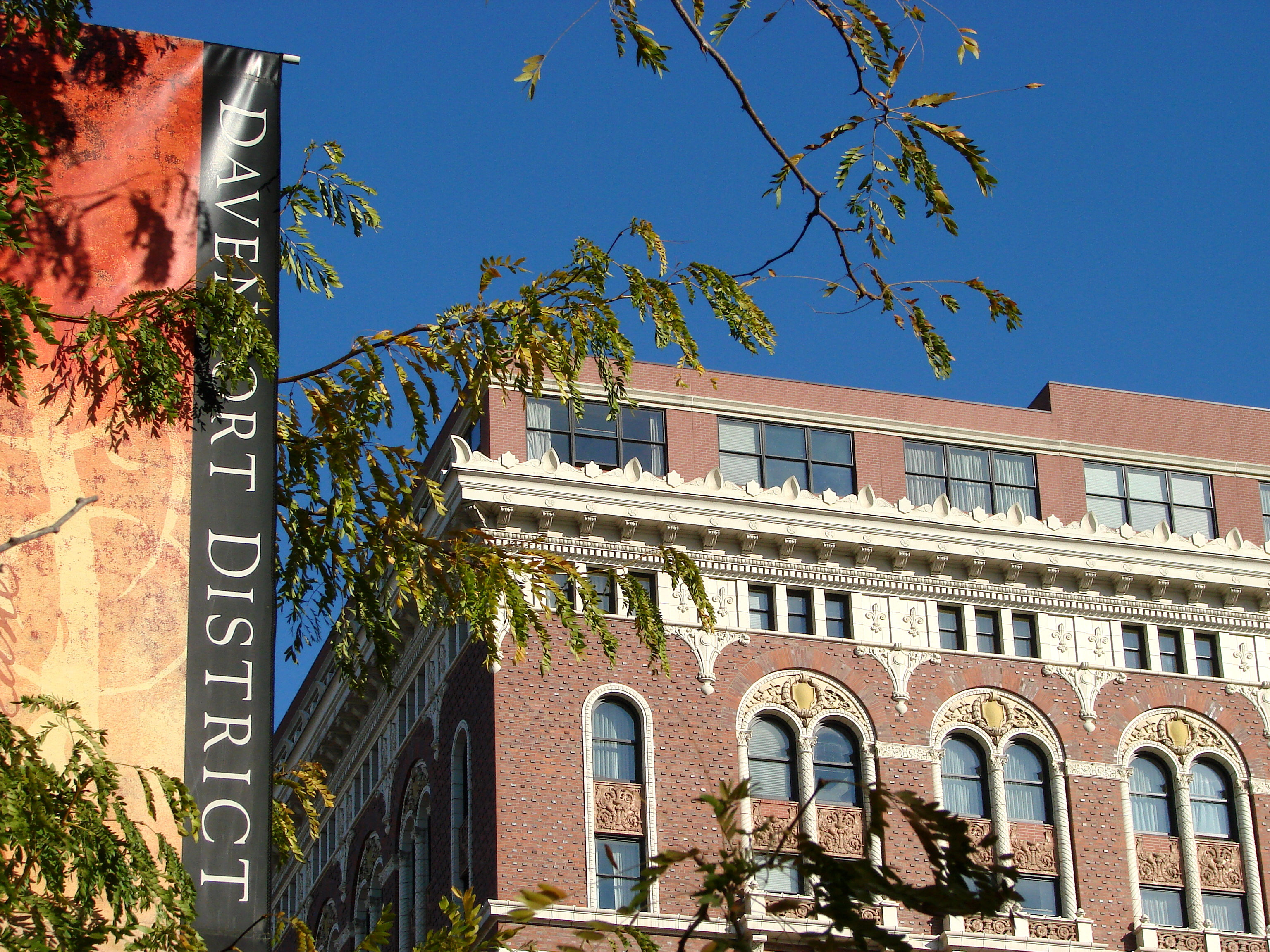 Davenport District Sign and Facade of Historic Davenport Hotel - Spokane WA - USA